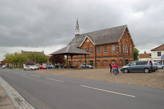 Easingwold Town Hall